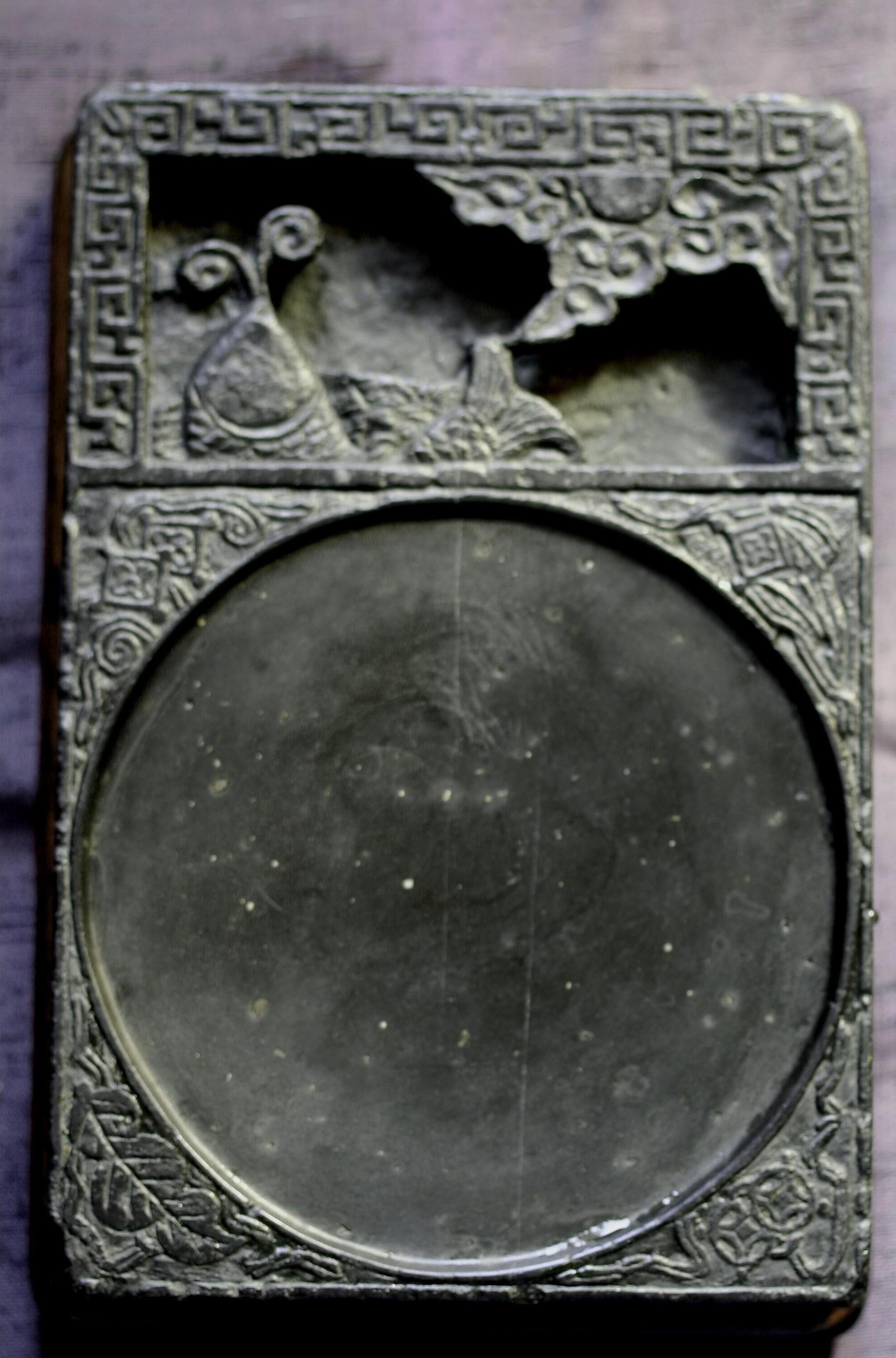 Song Dynasty Chinese inkstone made of She stone. From the Nantoyōsō Collection, Japan free use